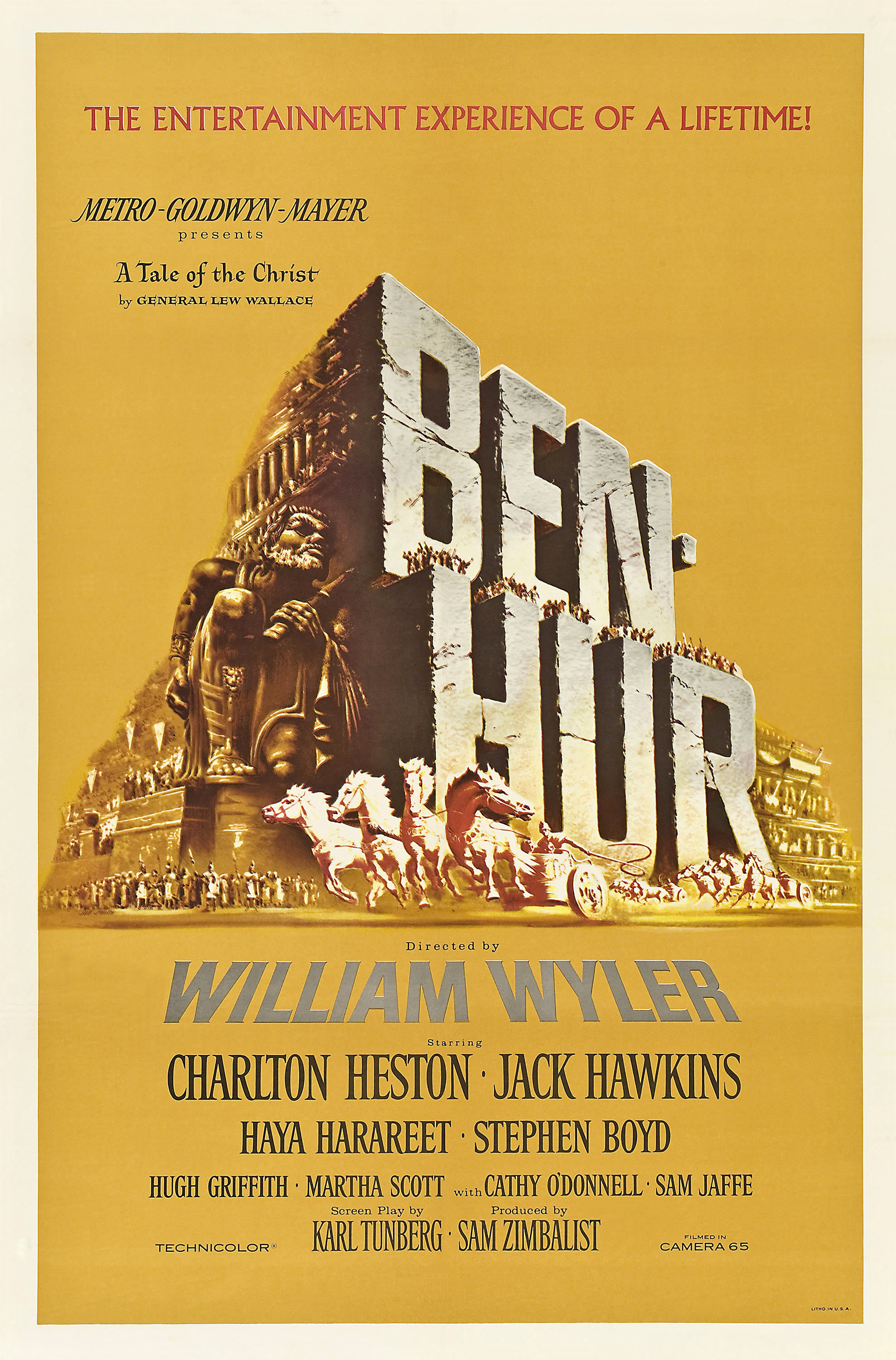 Ben-Hur (1959) film poster.